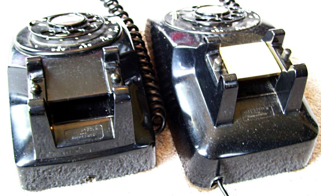 Rear comparison of the Model 5302 telephone and the Model 500 telephone. Self made image of items in my own collection. (Sorry about the overlighting, there was little time to do this and I didn't check it. Mea culpa.) Taken by ProhibitOnions, 2007.